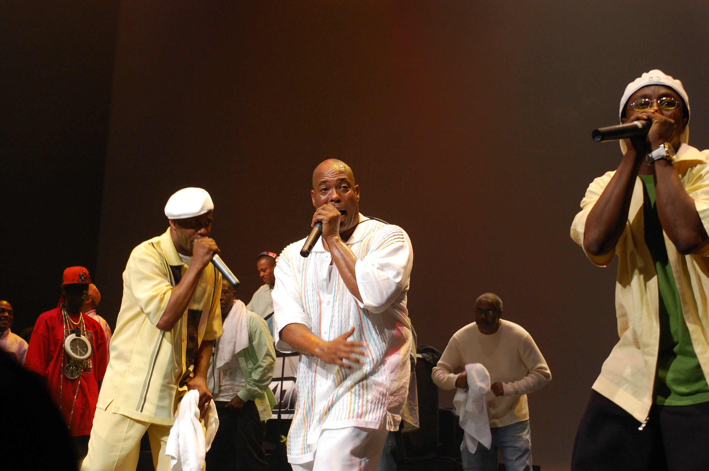 Whodini performing at FreshFest 2009.